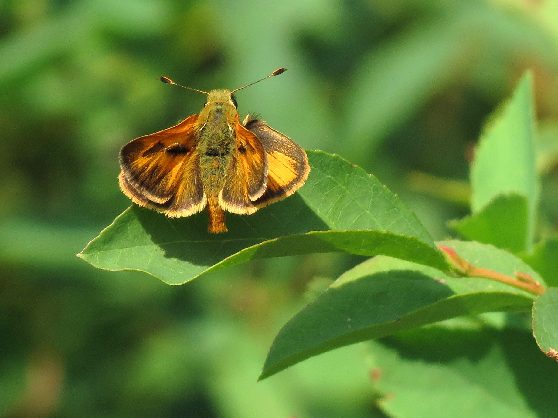 Polites sabuleti, Lily Lake, Sawtooth National Forest near Stanley, Idaho.